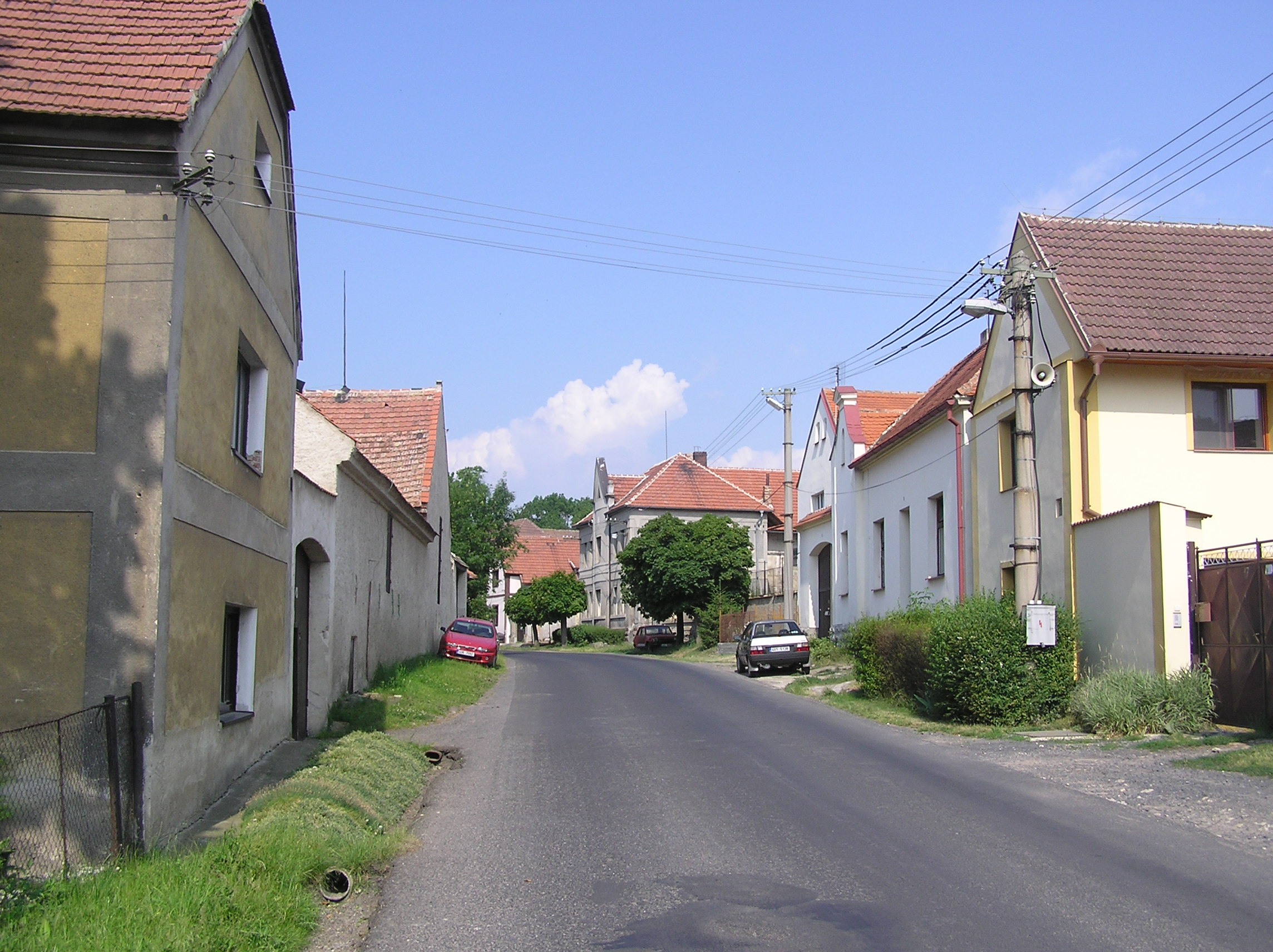 Main street in Černochov